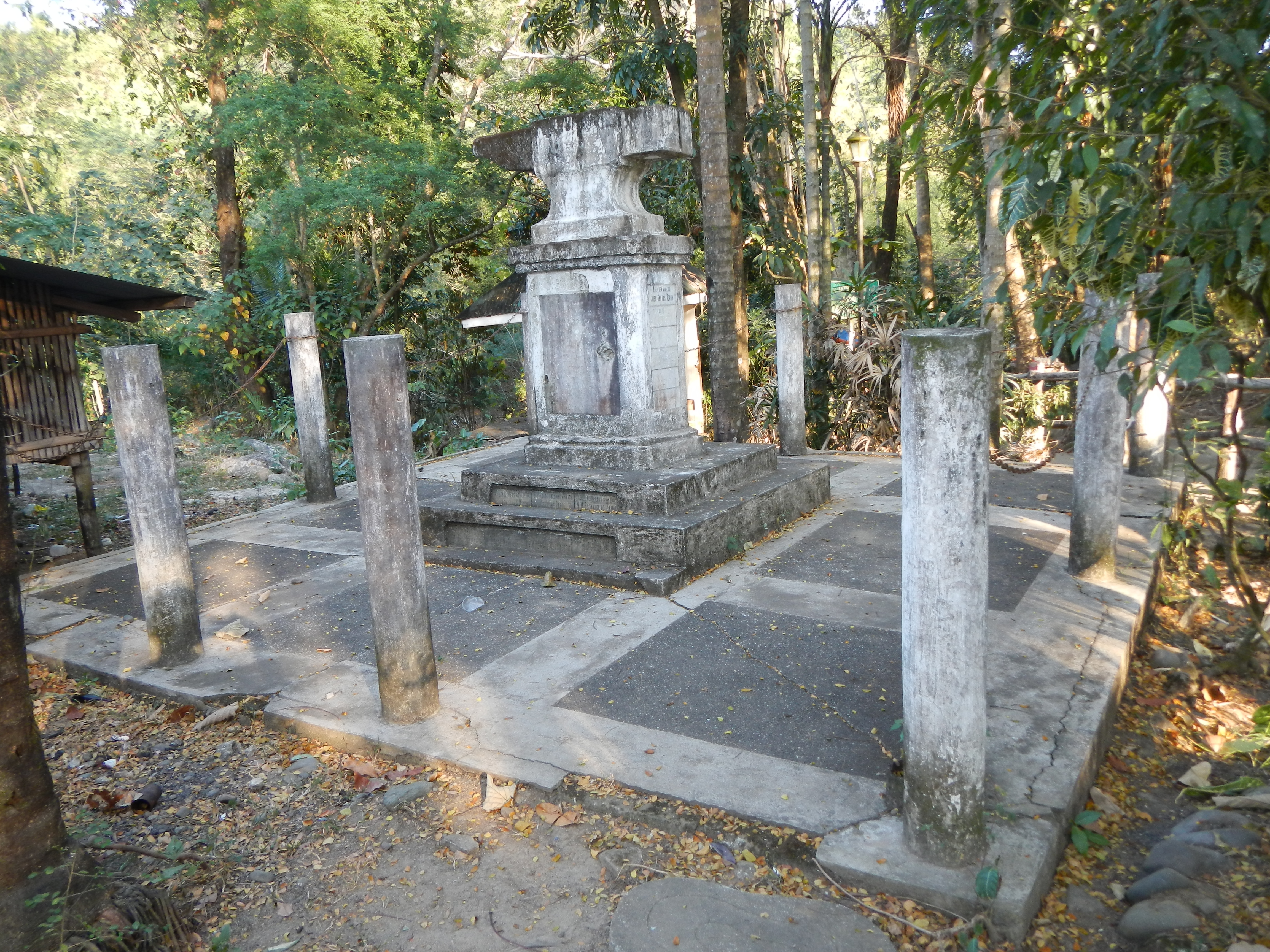 [1]Biak-na-Bato National Park - Mount Susong Dalaga and Tilandong Falls are also popular attractions inside the park. [2]Republic of Biak-na-Bato [3]Breast-shaped hill San Miguel, Bulacan[4]